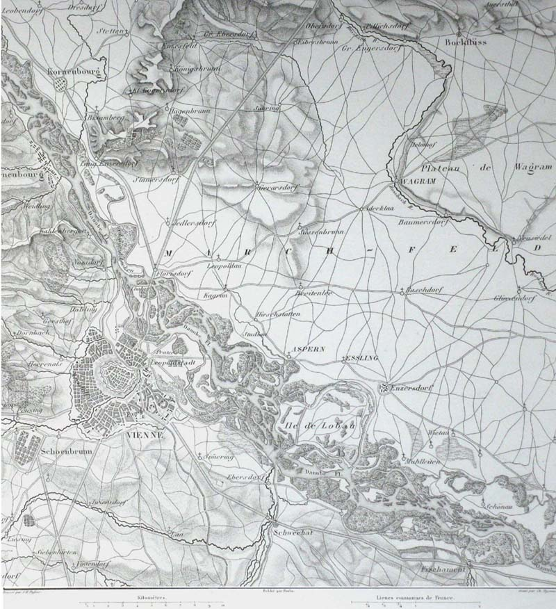 Map of the region north of Vienna, site of the battles of Aspern-Essling and Wagram, in 1809.